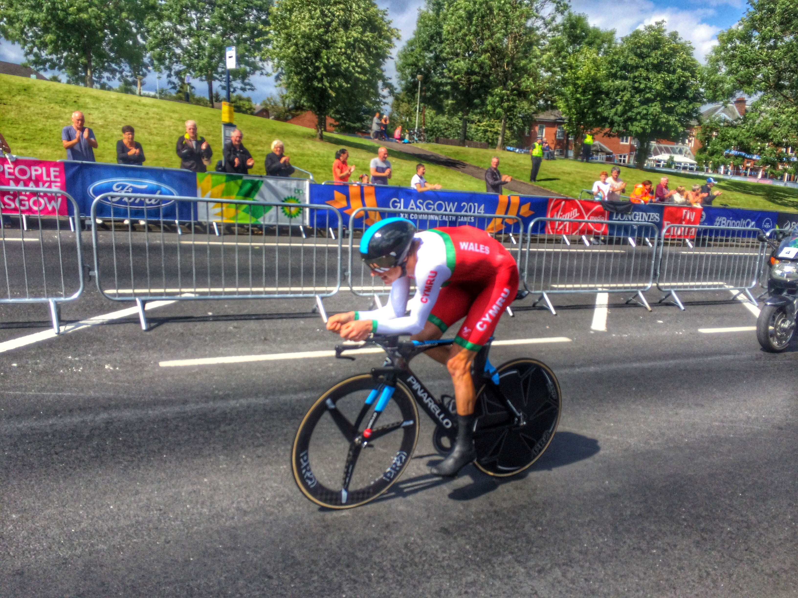 Commonwealth Games Men's Time Trial Glasgow 2014